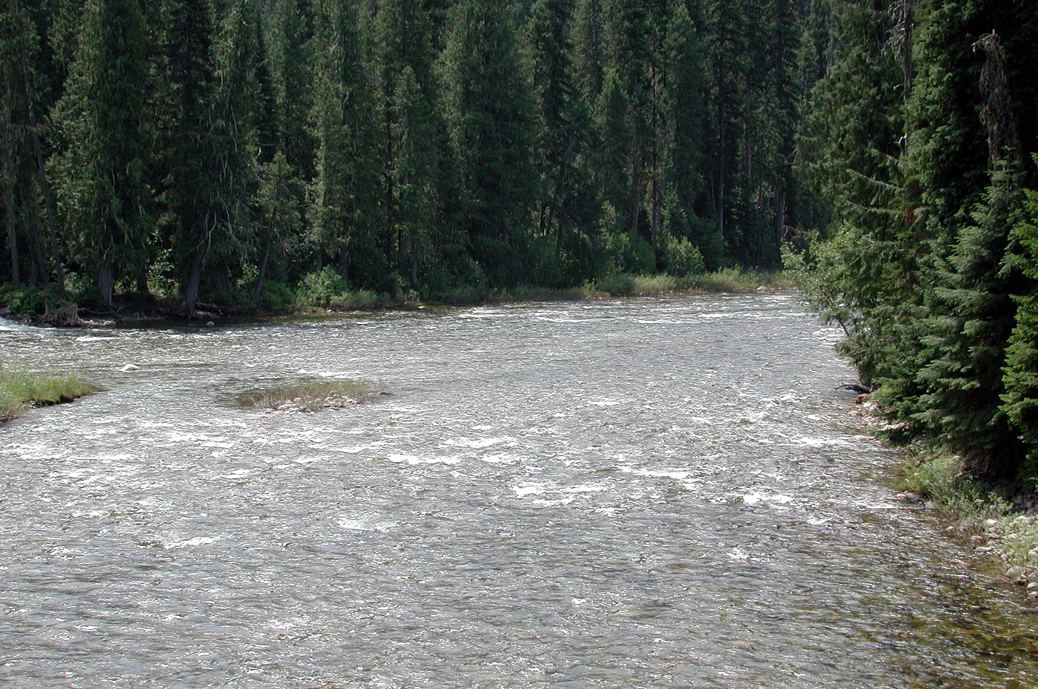 Headwaters of the Lochsa River near Powell, Idaho. Taken from a bridge over Crooked Fork, which joins Killed Colt Creek here to form the Lochsa.